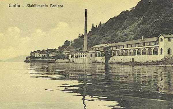 Lo stabilimento Panizza